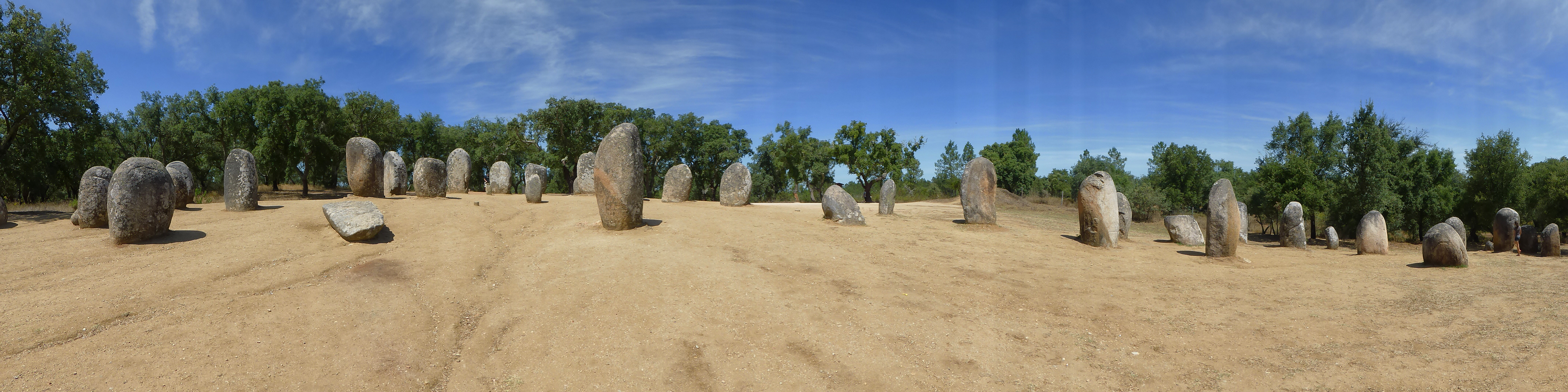 Almendres Cromlech, 2014, Guadalupe, Evora, Portugal